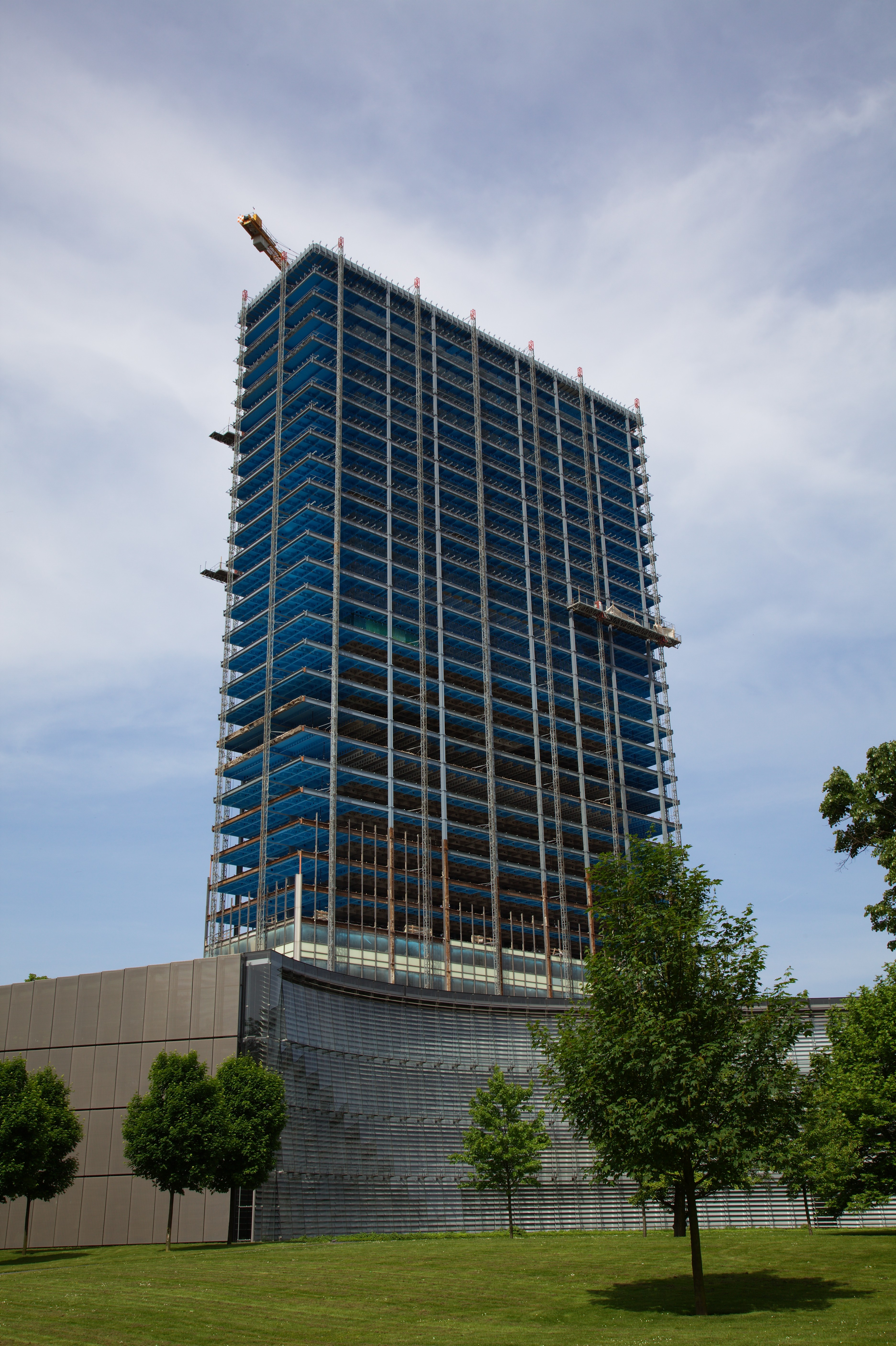 Bayer Hochhaus (W1), construction work for the "Medienfassade" ongoing